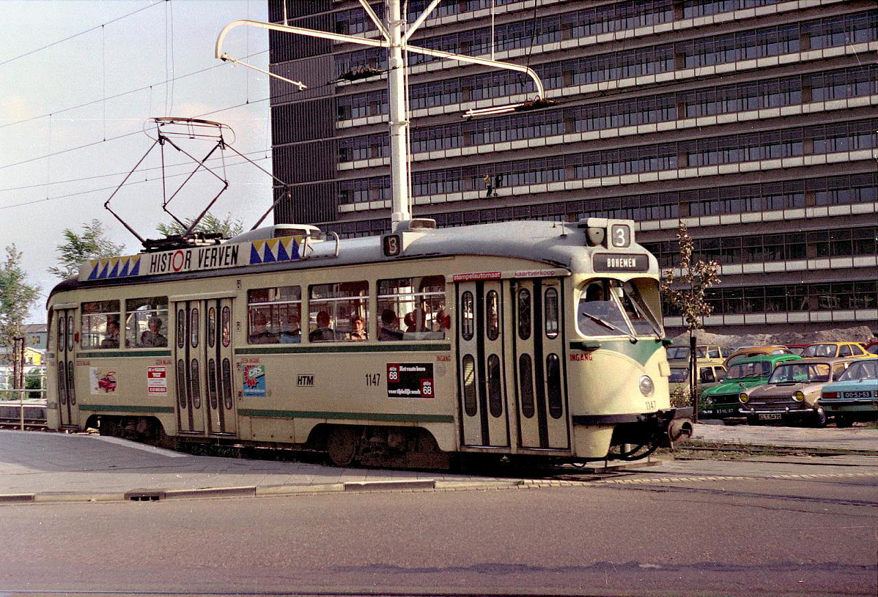 Tram route nr.3, The Hague, The Netherlands, at Muzenstraat, around 1977